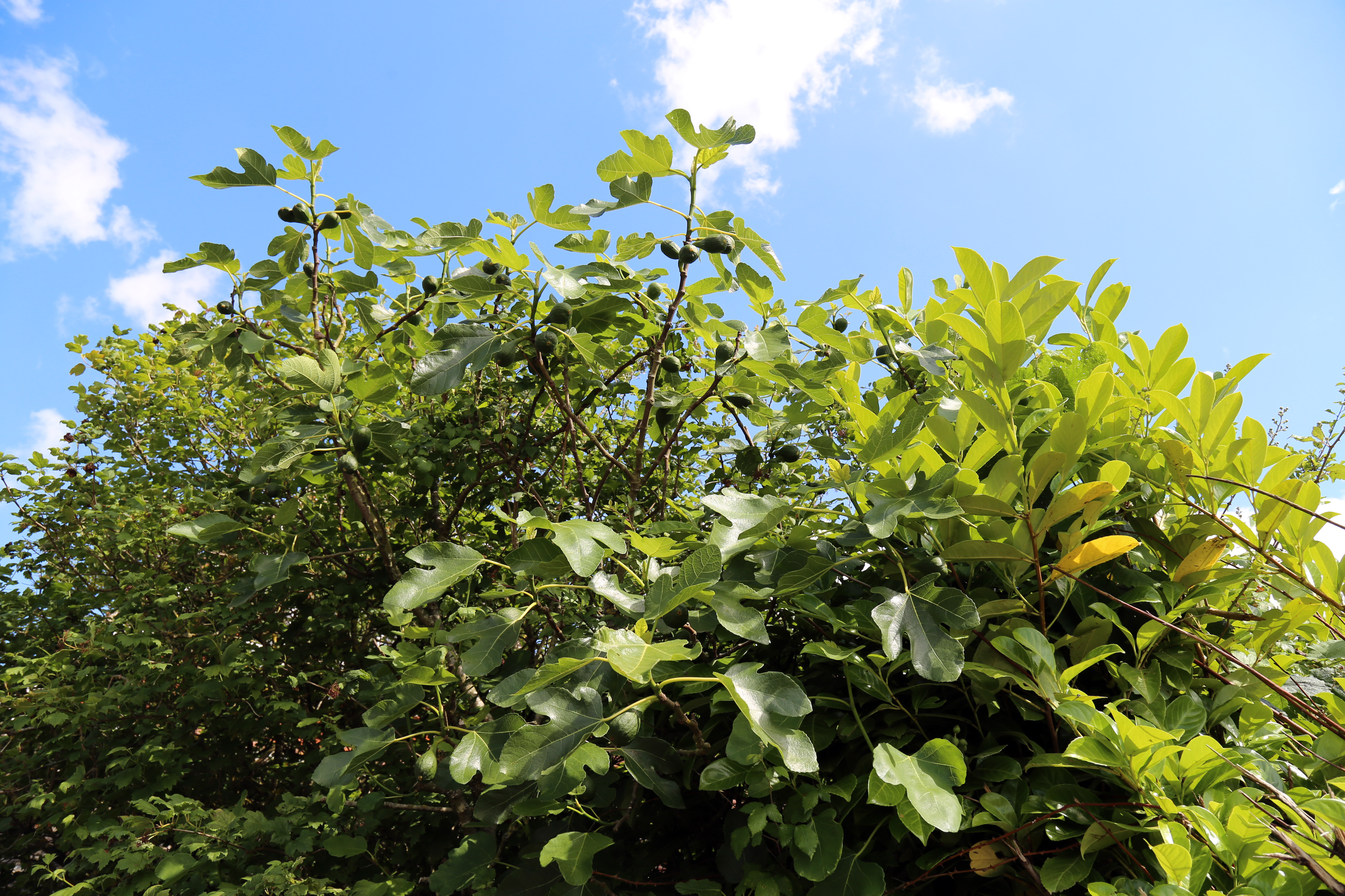 Ficus carica Brown Turkey common fig at Shipley, West Sussex, England